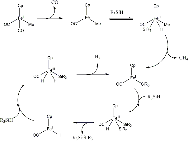 Fe catalytic cycle